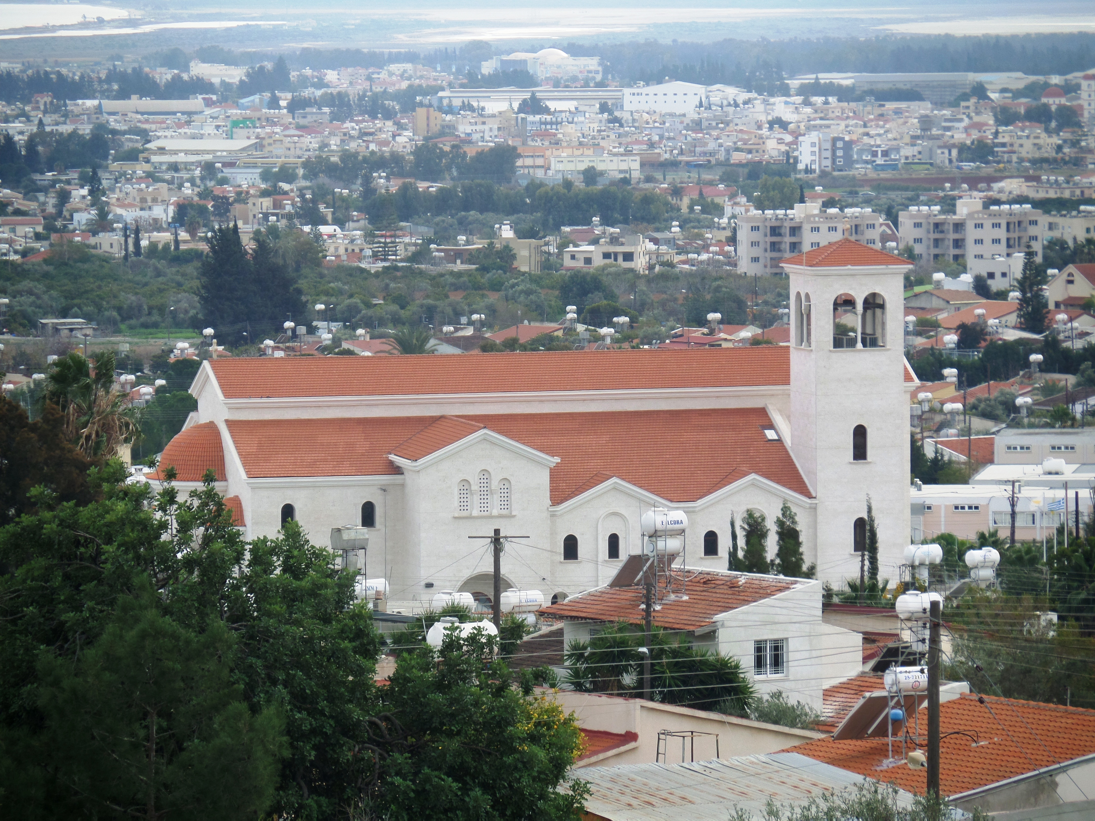 Timios Stavros church at Pano Polemidhia